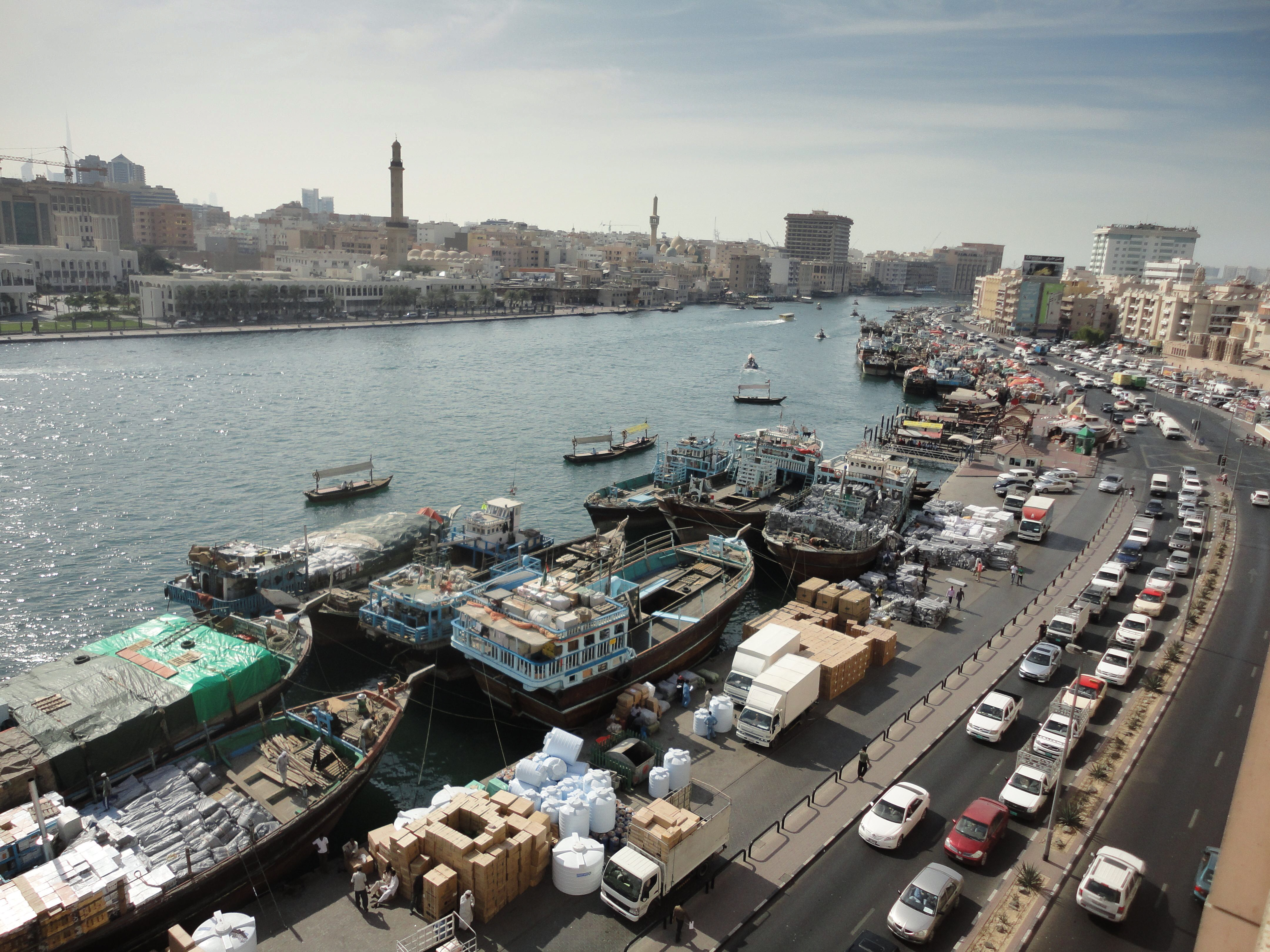 Very busy down on the Creek in Dubai